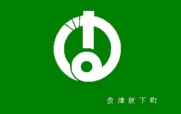 Flag of Aizubange Fukushima